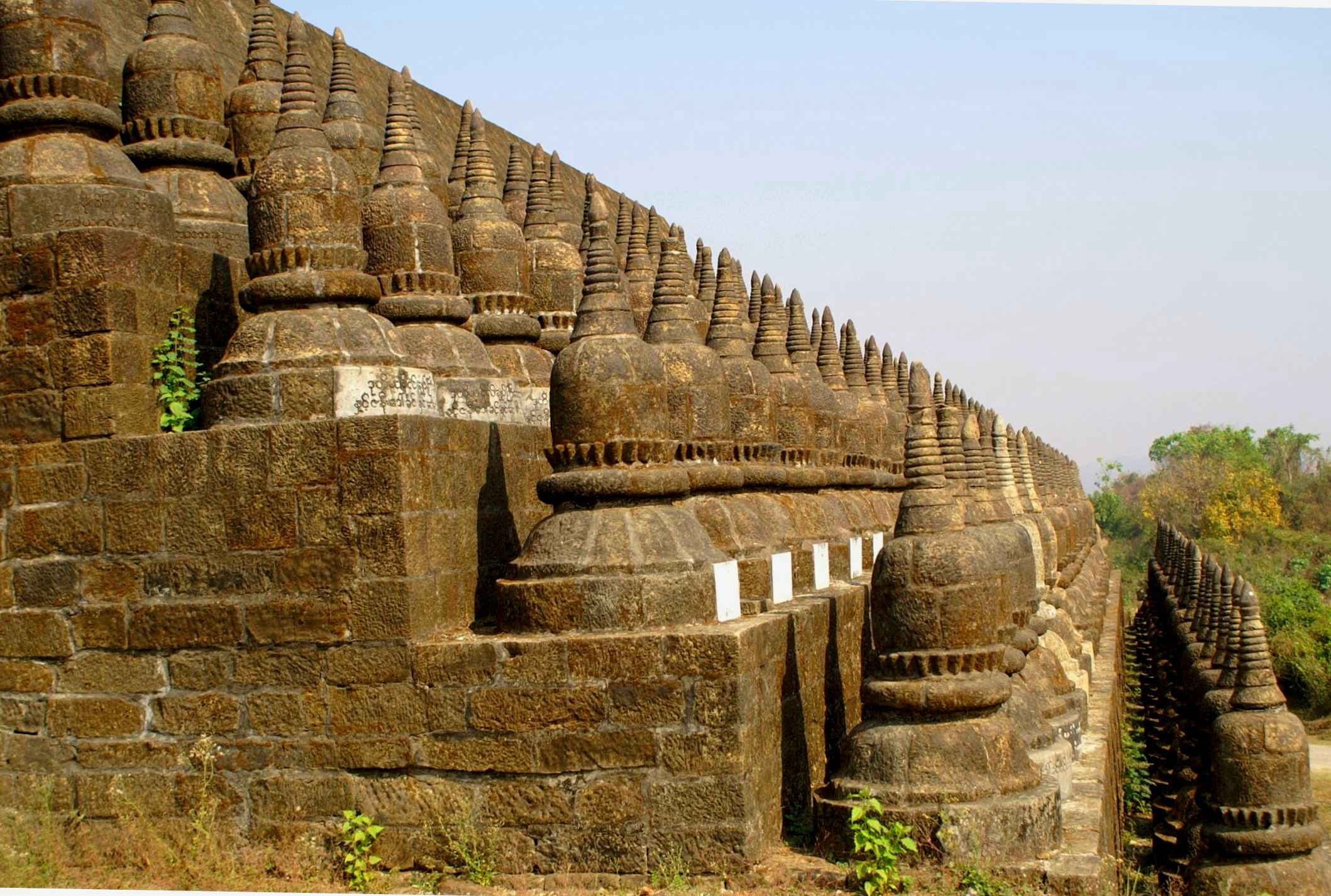 This temple situated near the city of Mrauk U, 2km East, was built between 1553 and 1556 by King Dikkha, the son of King Min Bin when the Kingdom was prosperous ... The name Paya Koe Thaung , means 'Temple of 90,000 Buddha Images' Each little Stupa is representative of the Buddha's Image